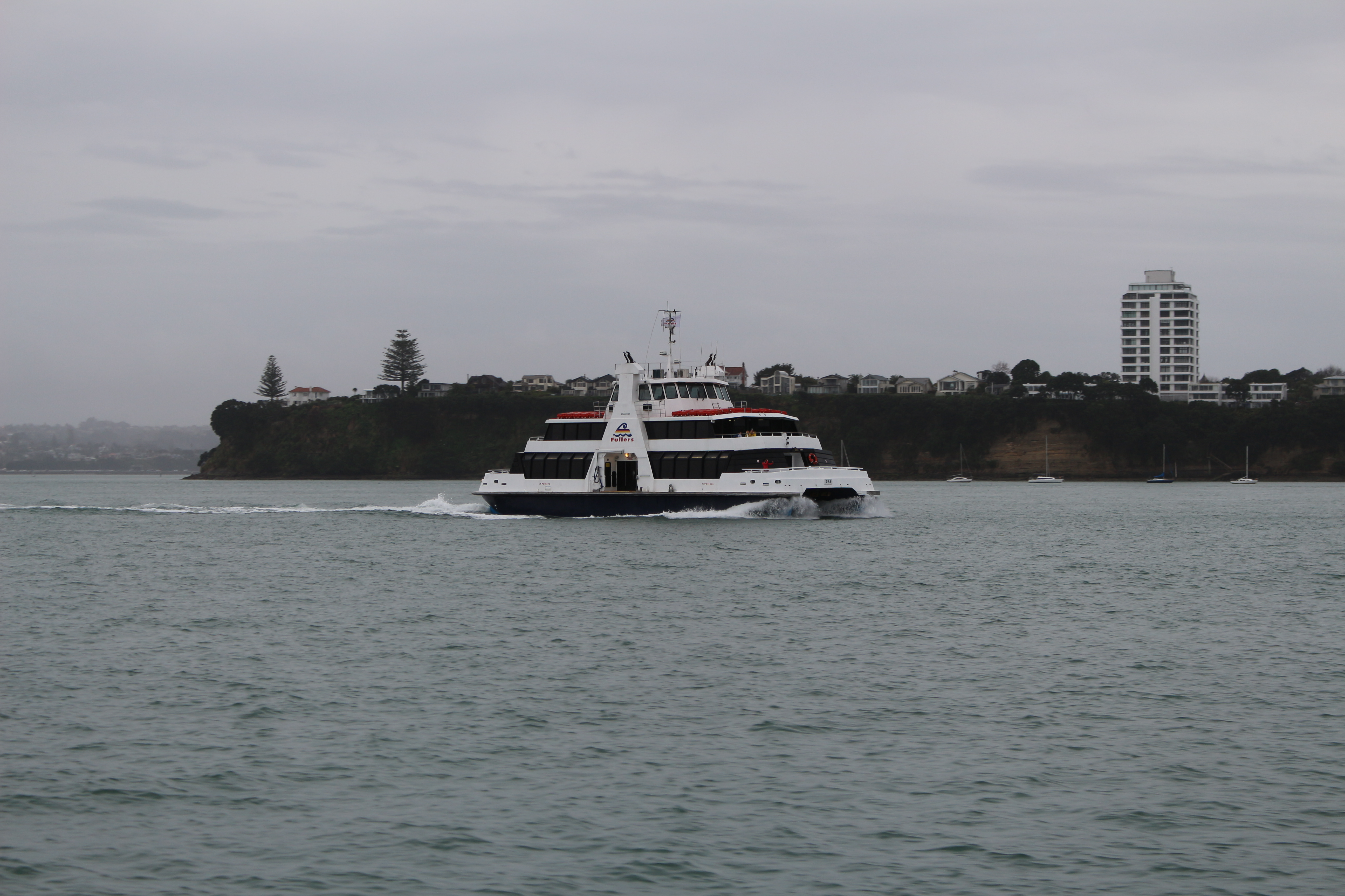 Fullers Ferry Kea on the Waitemata Harbour near Devonport